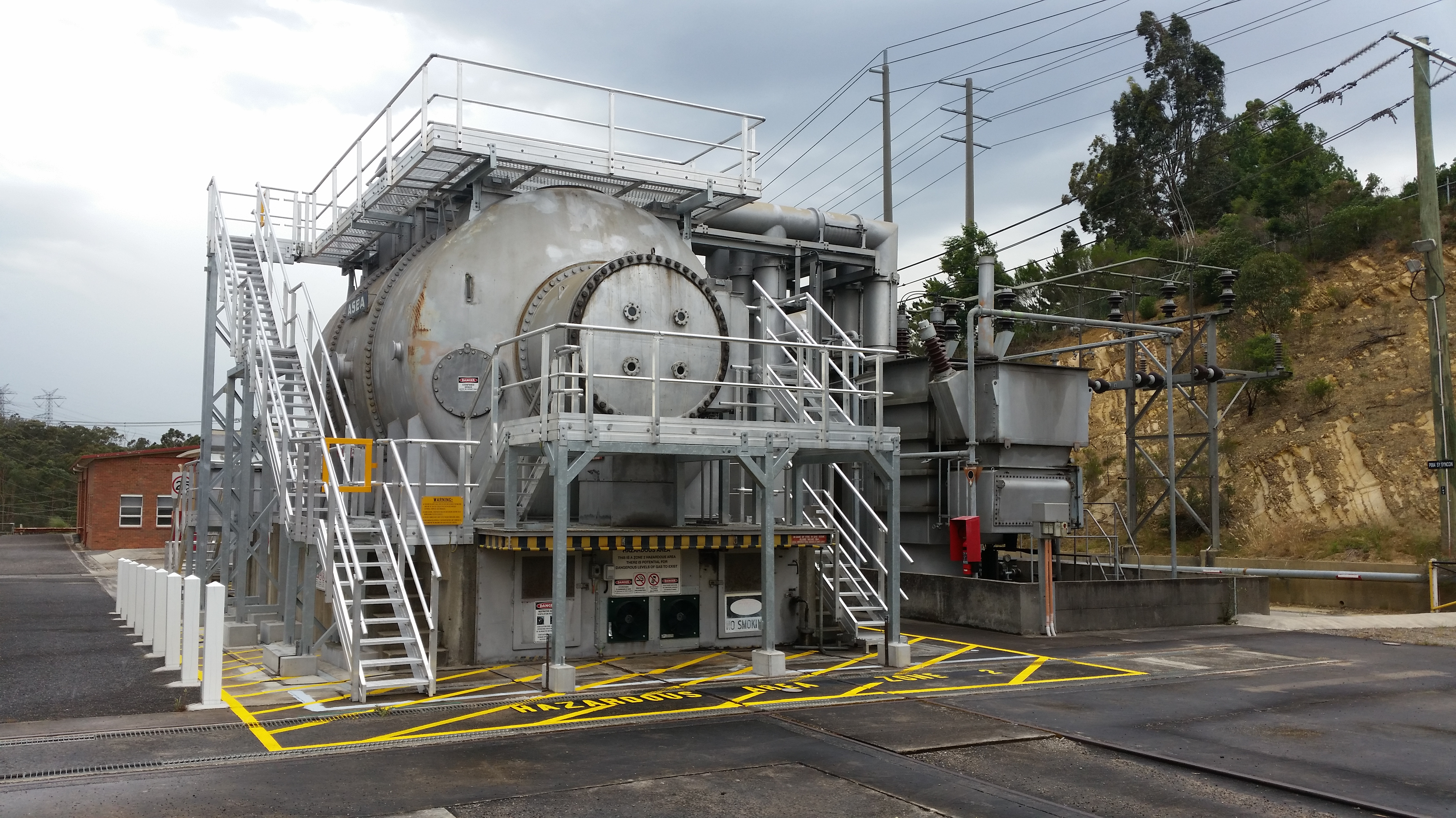 Synchronous condenser installation at Templestowe substation, Melbourne Victoria, Australia. 3 Phase hydrogen colled unit with 125 MVAr @ 750rpm with 22 kV and max. 3,28 kA Magnetic excitation with 300 V and max. 1,2 kA